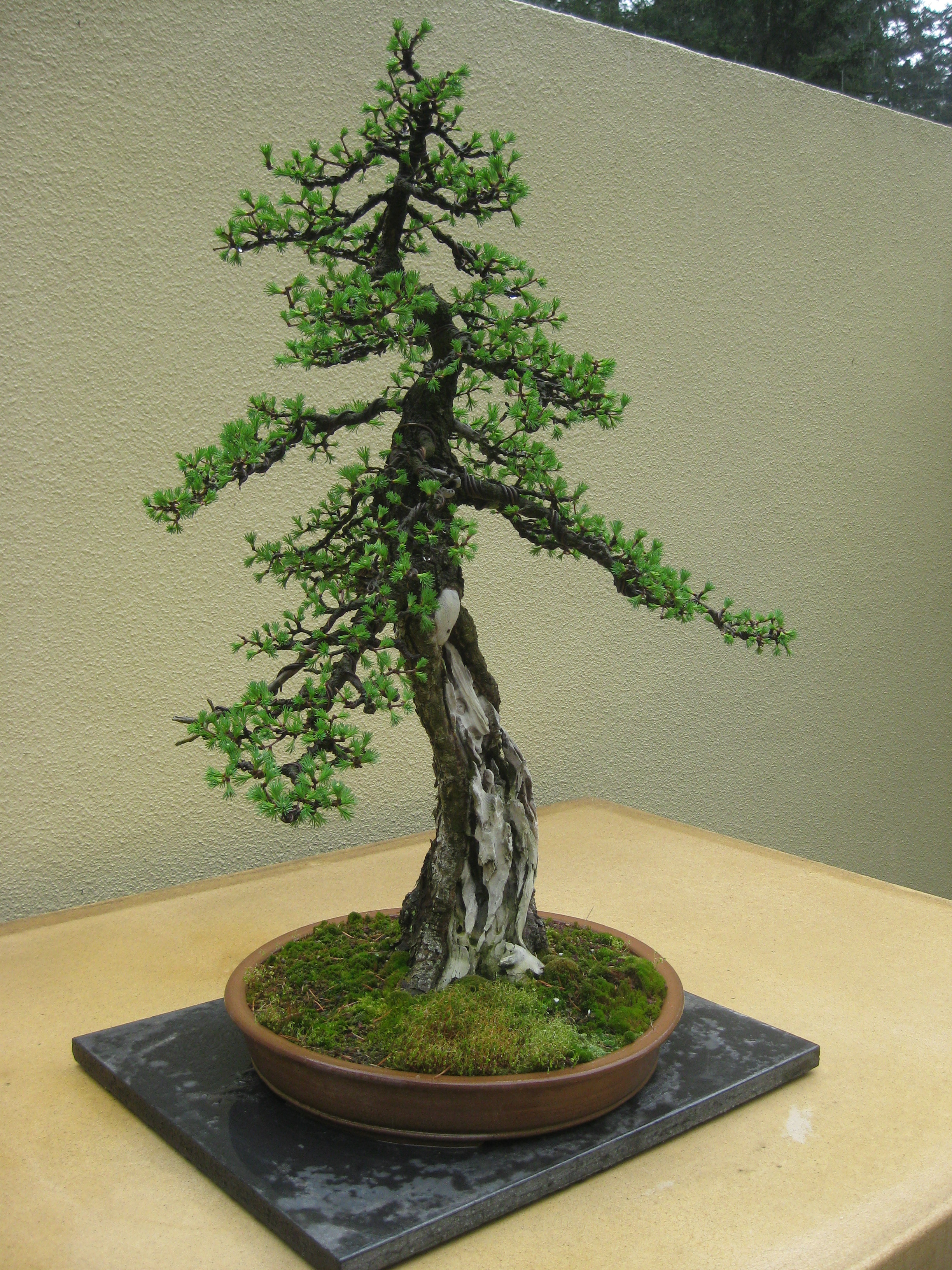 Larix laricina (American Larch) bonsai. Origin: ca 1880, USA. In training since: 1972. Bonsai artist: Nick Lenz.